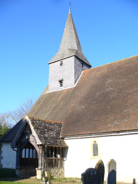 South Porch, Alfold Church Village church with a small shingled tower. The church has Norman roots.